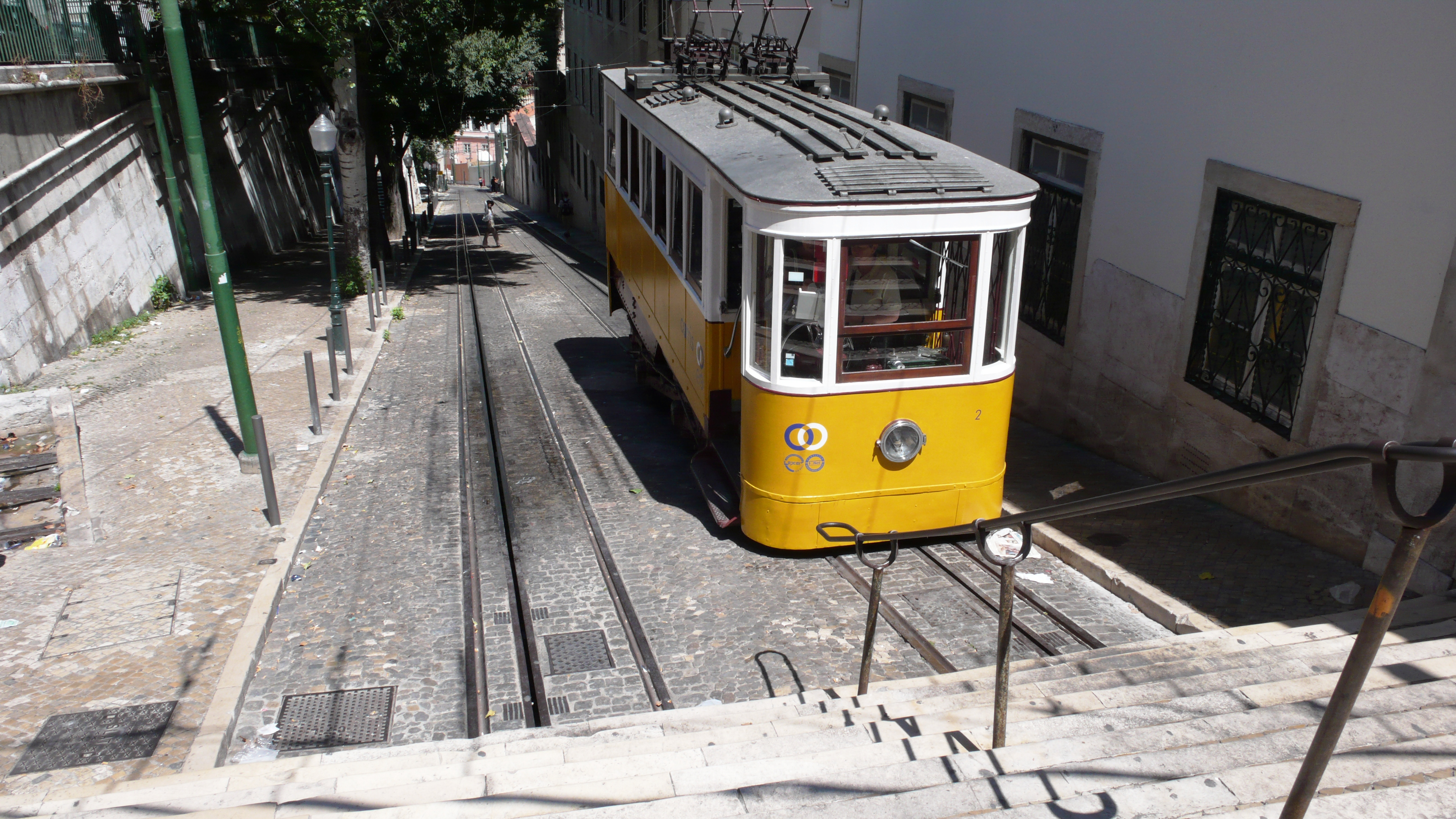 Lisbon, Portugal, Elevador da Glória